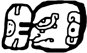 A smoothed out version of a glyph for the mayan goddess Ixchel I drew this freehand (not traced) out of a book. The original image is obviously public domain, copyright expired over a thousand years ago. The image in the book is copyrighted but they traced the original, so mine is actually more original than theirs.